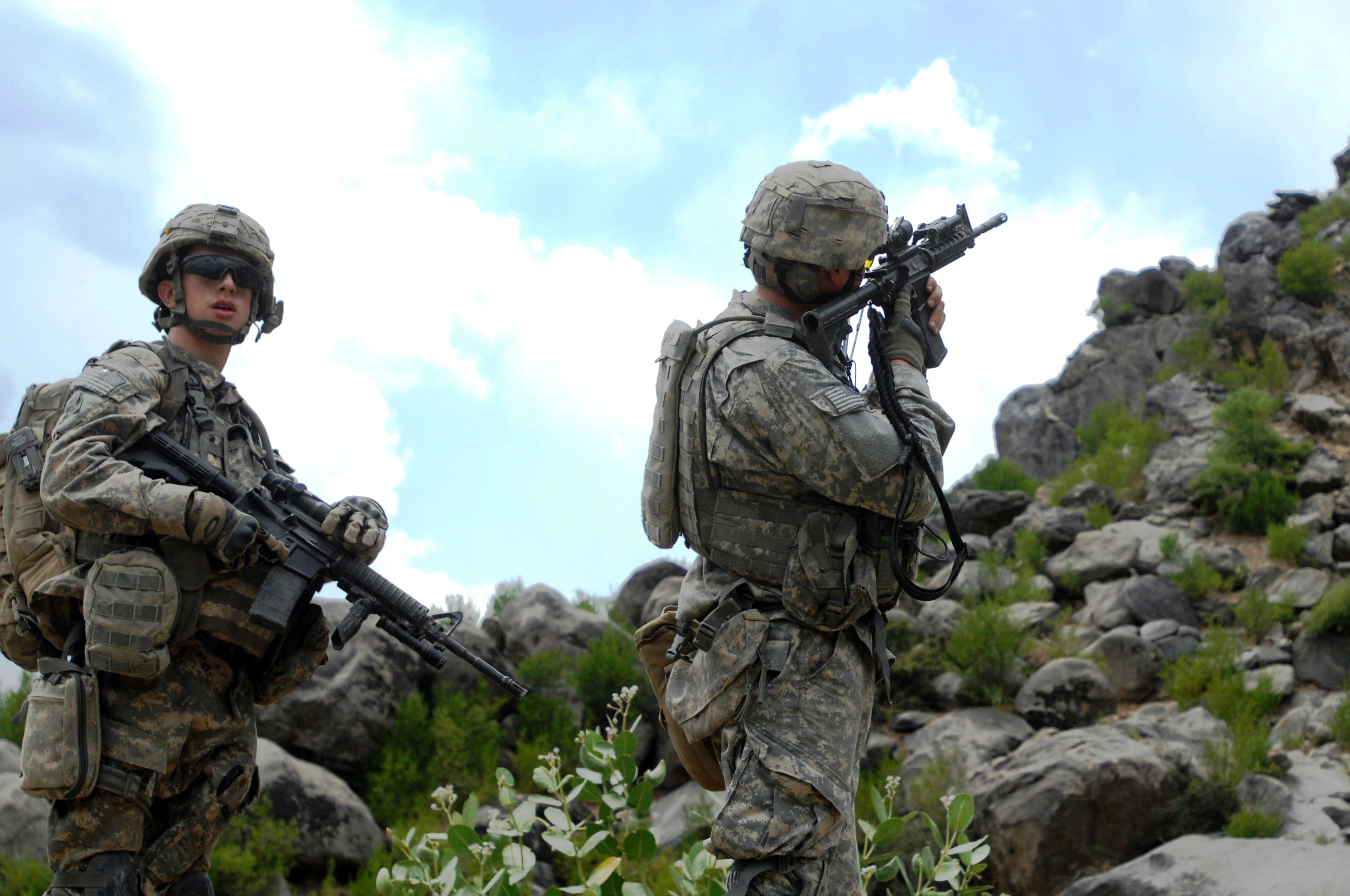 The following is the author's description of the photograph quoted directly from the photograph's Flickr page."U.S. Army Pfc. James Kelley, Company C, 3rd Squadron, 61st Cavalry Regiment, 4th Brigade Combat Team, scans the side of the mountain for any potential threats as Spc. Andrew Ewart provides security in Nishagam village, Konar province, Afghanistan, July 13.55th Combat Camera Photo by Spc. Evan Marcy Date: 07.14.2009Location: Konar province, AFRelated Photos: "